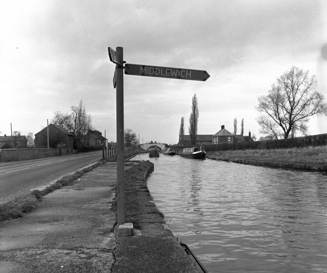 This is looking north-westwards along the main line of the Shroppie, with Goodwin Bridge 101 in the distance. As the signpost indicates, the ten-mile Middlewich branch, which connects with the Trant and Mersey Canal, goes off to the east at this point.